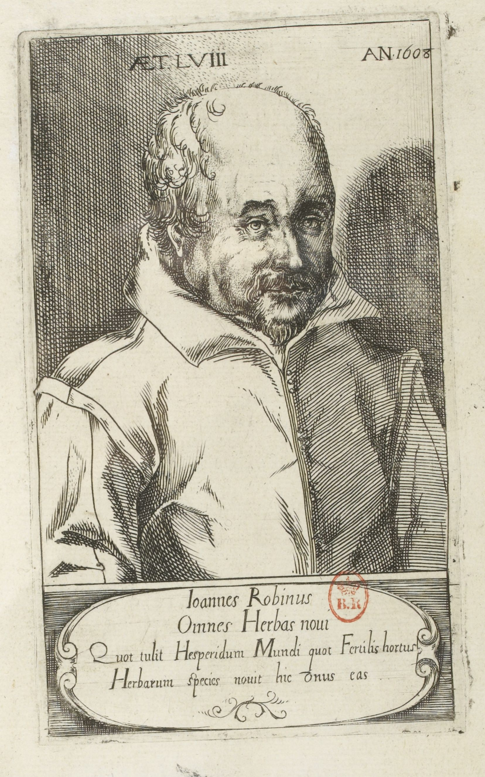 Engraving of Jean Robin in the book Le jardin du roy très chrestien Henry IV, Roy de France et de Navarre. Dédié à la Royne par Pierre Vallet.